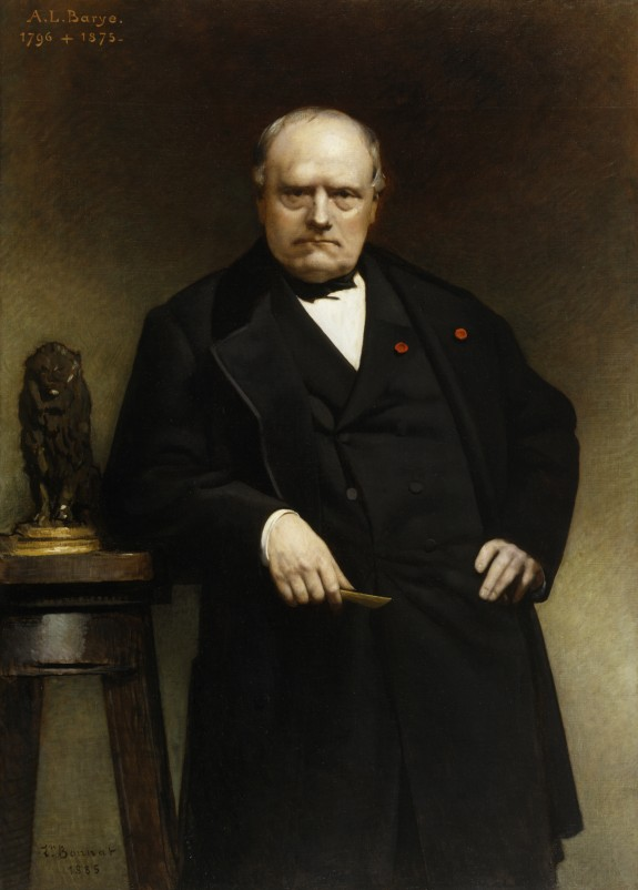 Portrat of Antoine-Louis Barye with a Wax Model of Seated Lion